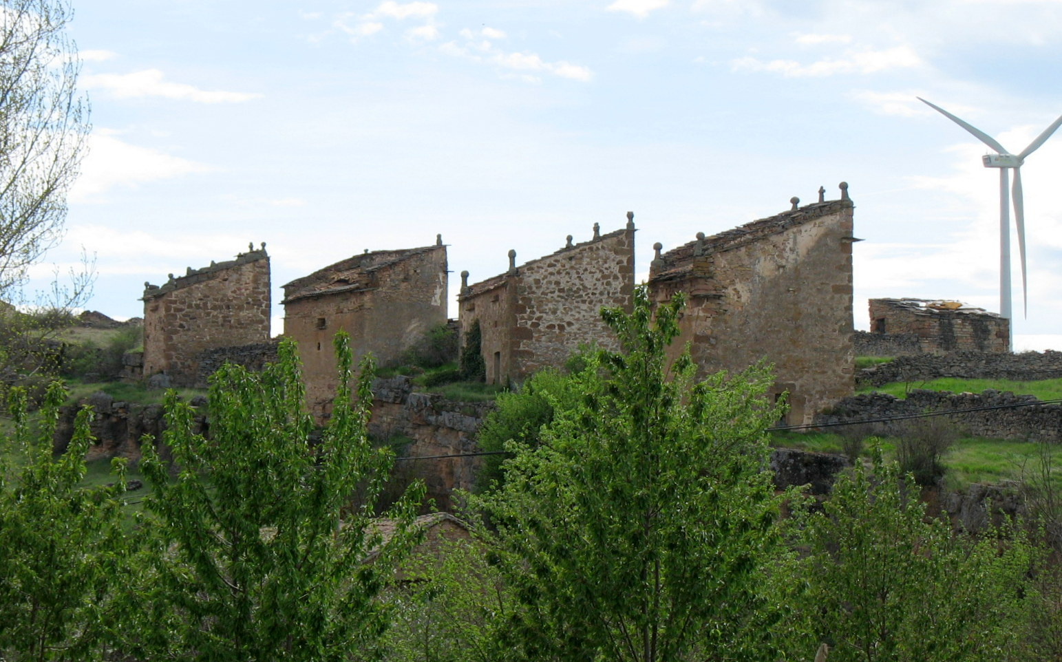 Old dovecotes in Yelo (Soria, Spain)